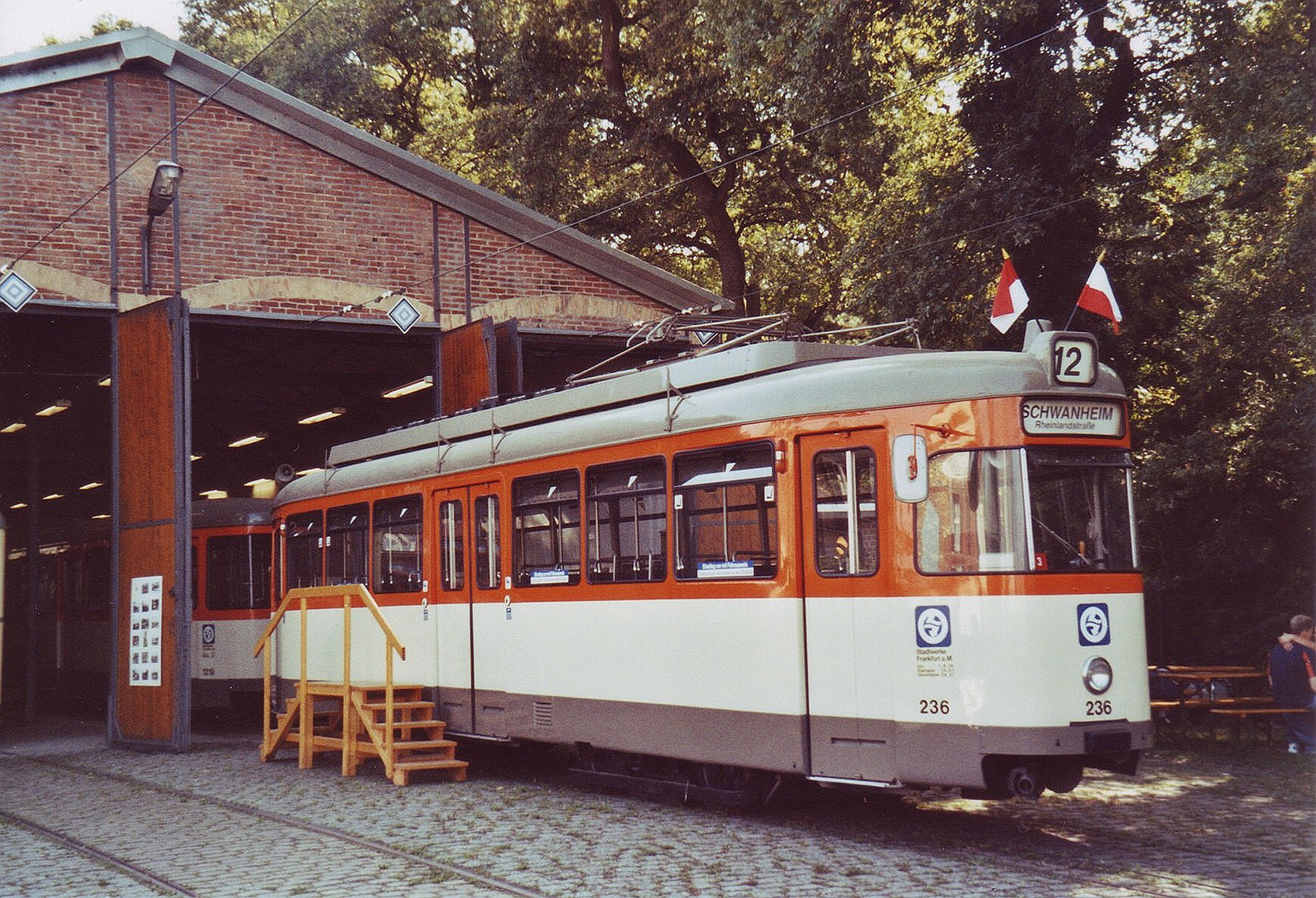 L-type tram 236 at the Frankfurt on Main Transport Museum in Frankfurt am Main--Schwanheim